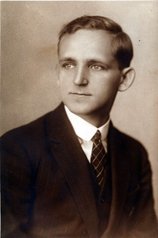 Alfonso Pechan twenty years of age